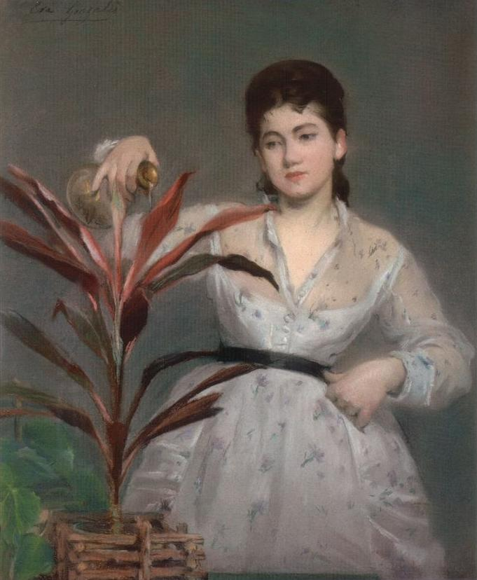 La Plante favorite